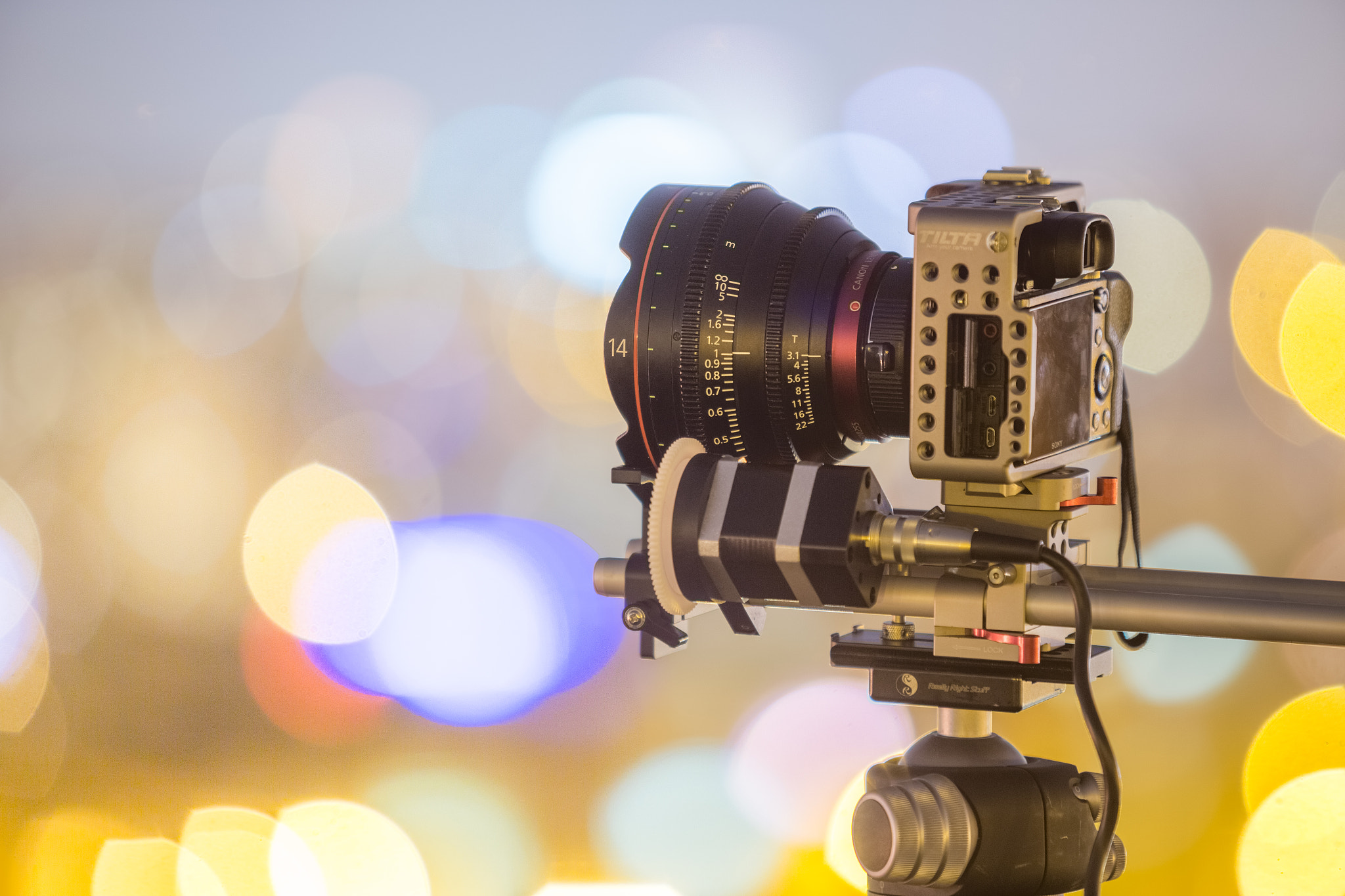 500px provided description: Testing the amazing Canon CN-E 14mm Cinema Prime Lens with ZenFocus, motorised focus puller. Check results: Gear used: Canon CNE 14mm Sony A7s ZenFocus motorised follow-focus RRS BH-55 ballhead Tilta Cage Gitzo tripod [#street ,#night ,#abstract ,#motion ,#blur ,#long exposure ,#timelapse ,#RRS ,#Canon CN-E ,#Sony a7s ,#zenfocus ,#Tilta cage ,#follow-focus ,#cinema prime]